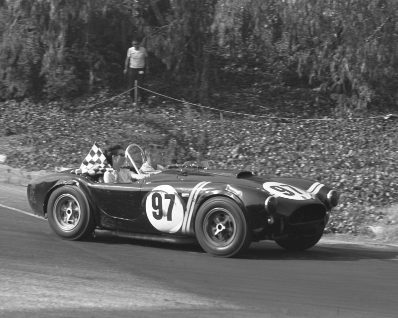 Mac D PO 8x10 '63 Dave MacDonald takes wife Sherry on victory lap in Shelby Cobra at Pomona 1963